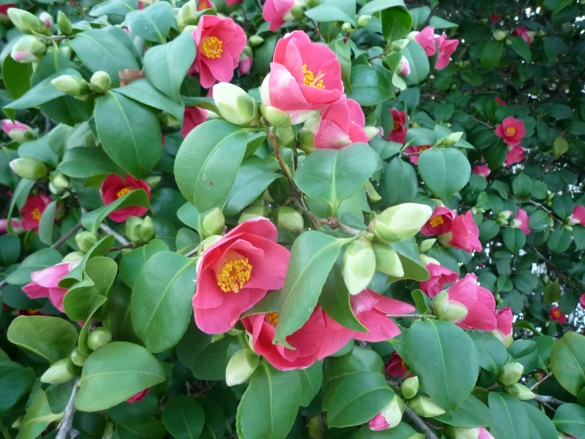 The flowers of Camellia japonica in the garden of Pillnitz Castle